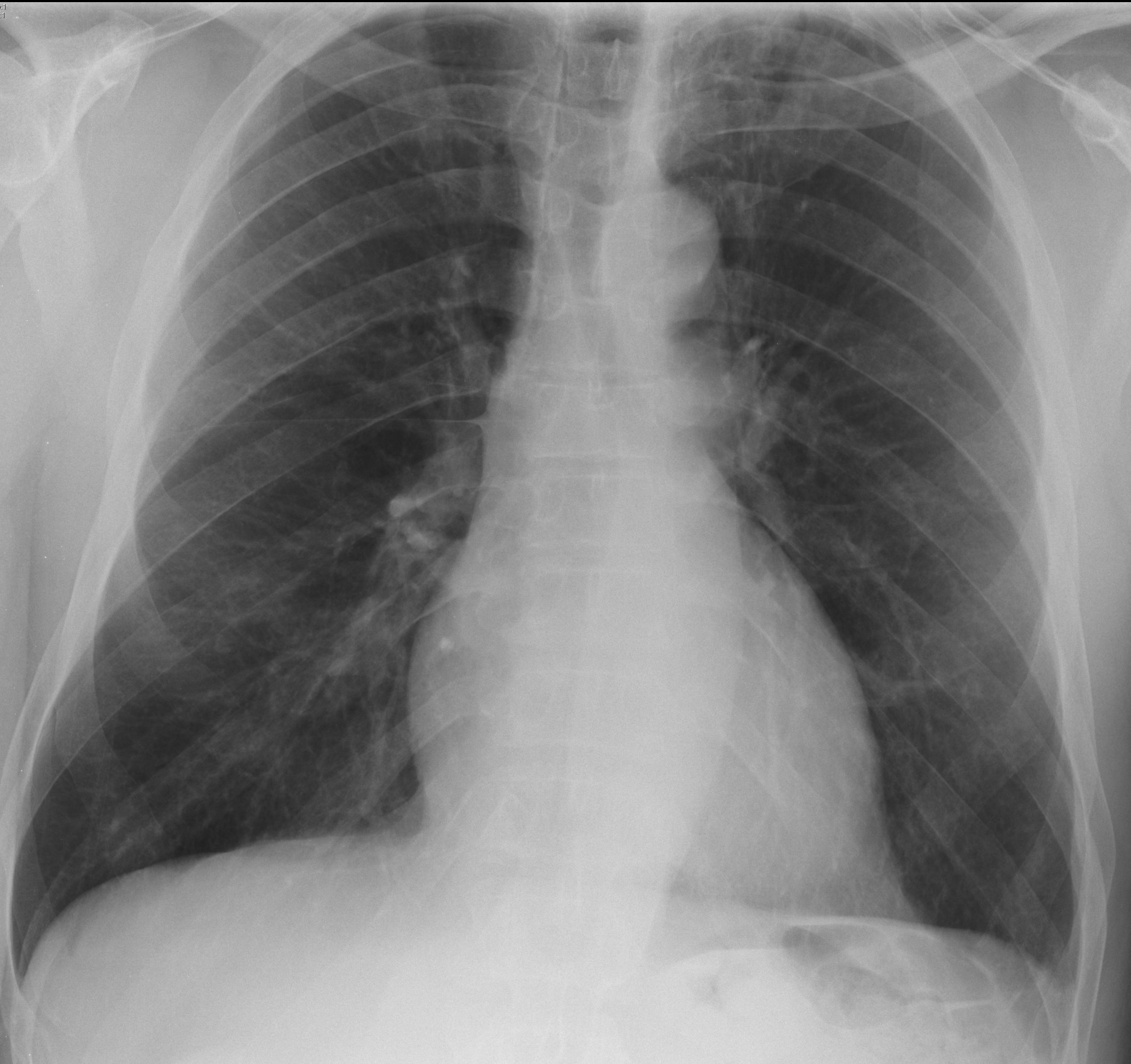 The left apical region is opacified in a case of Wegener's granulomatosis.